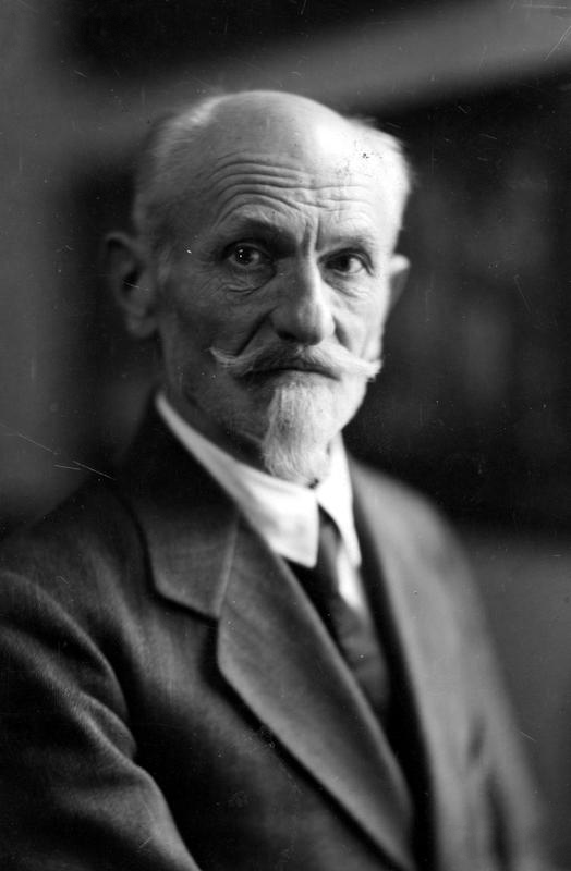 Portrait of Polish President Stanisław Wojciechowski